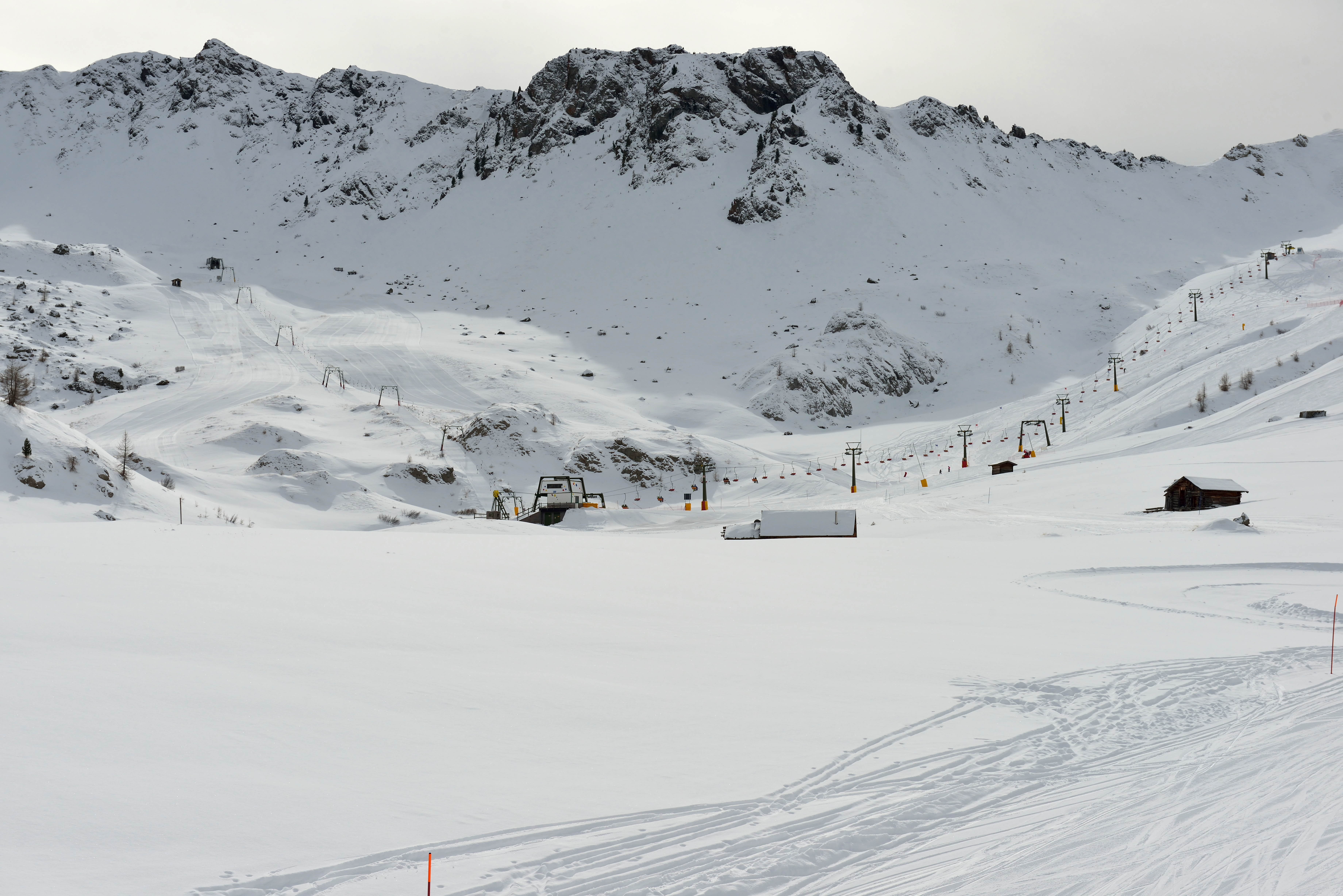 Skkiing area Ciampac in Val de Fascia